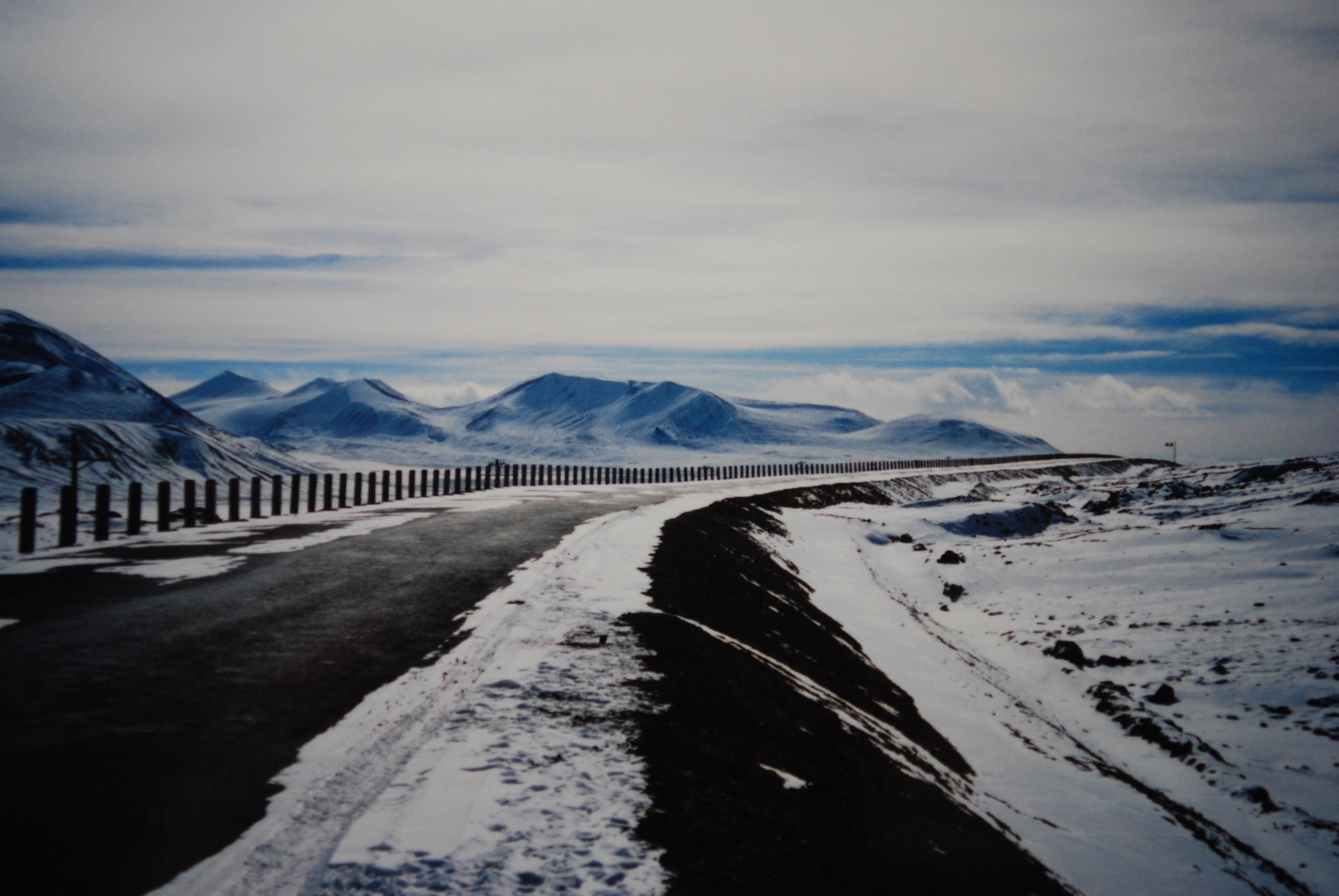 Qingzang highway—China National Highway 109, on the Tibetan Plateau. in Qinghai, southern China.